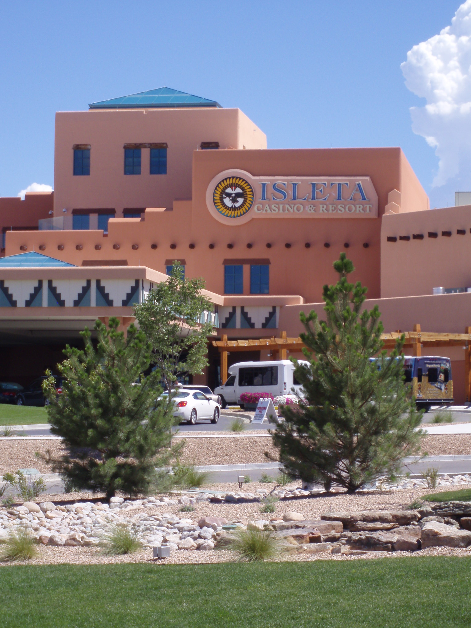 entrance to the casino. I was amazed; I hadn't been down there in a long time and the last time I'd been there there was no resort and the casino was just a plain big building. There's also a golf course across the highway.